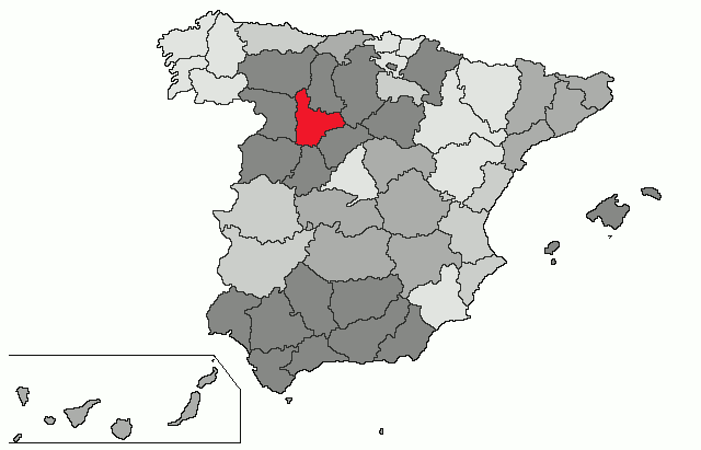 Province of Valladolid Based in: Image:ProvPont.jpg Source: Designed by Leoplus. Original picture, designed by Sobreira.